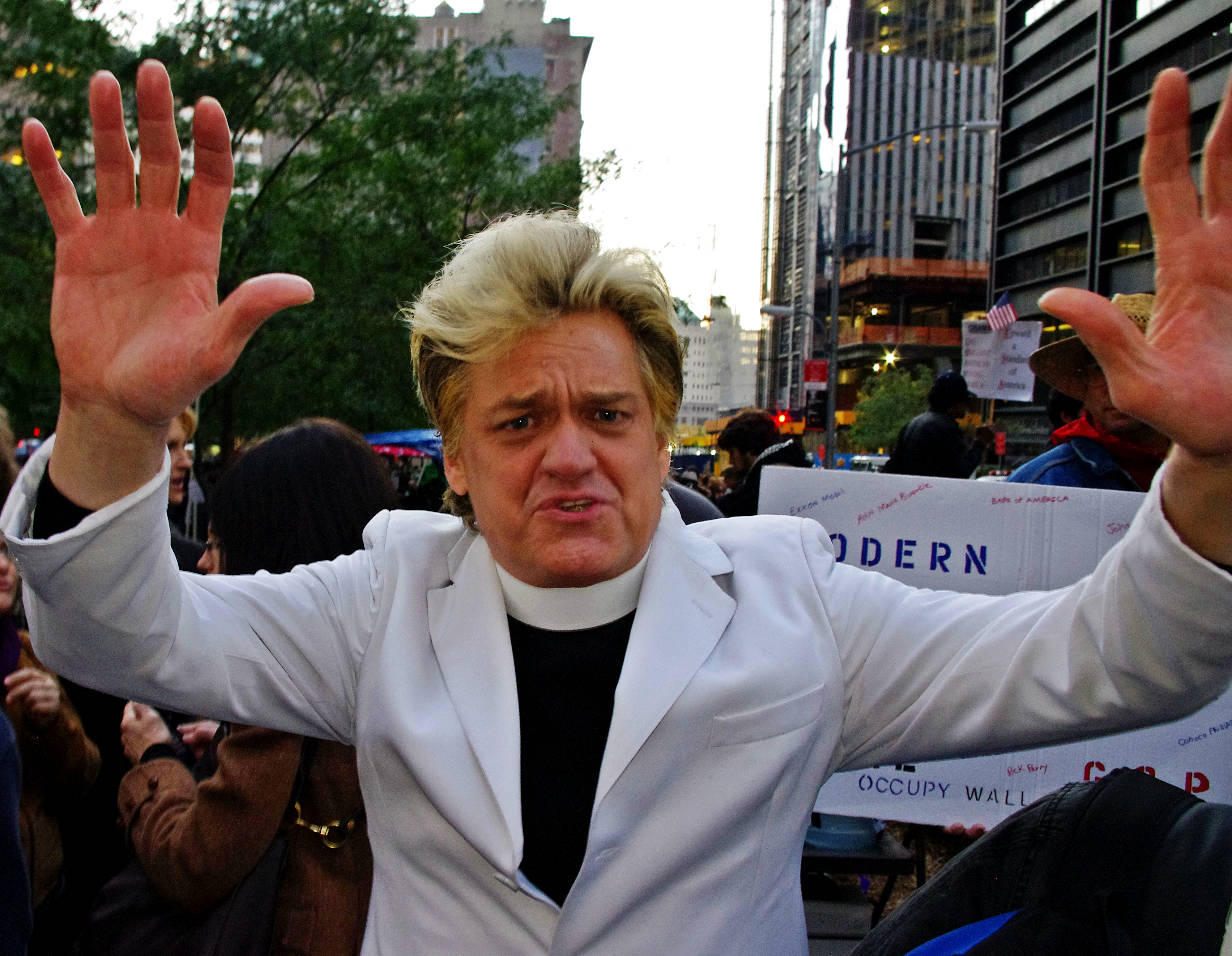 Reverend Billy on Day 40 of Occupy Wall Street in New York, Tuesday, October 25. Photos of protesters and life in Liberty Plaza.